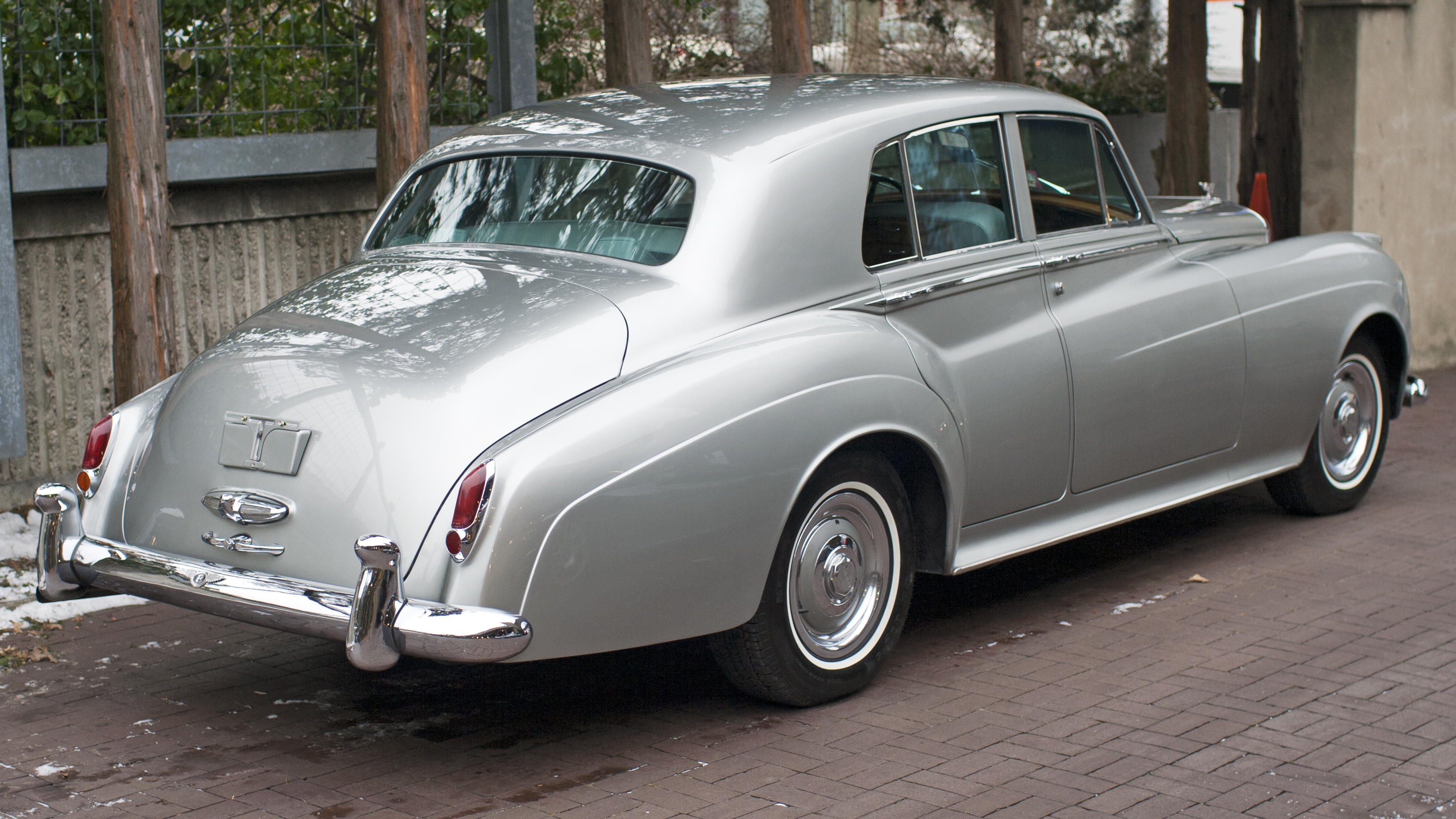 Rear view of a 1959-1962 Bentley S2, judging by the dashboard (not very visible in this photo).